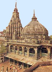 Vishnupadh temple Gaya